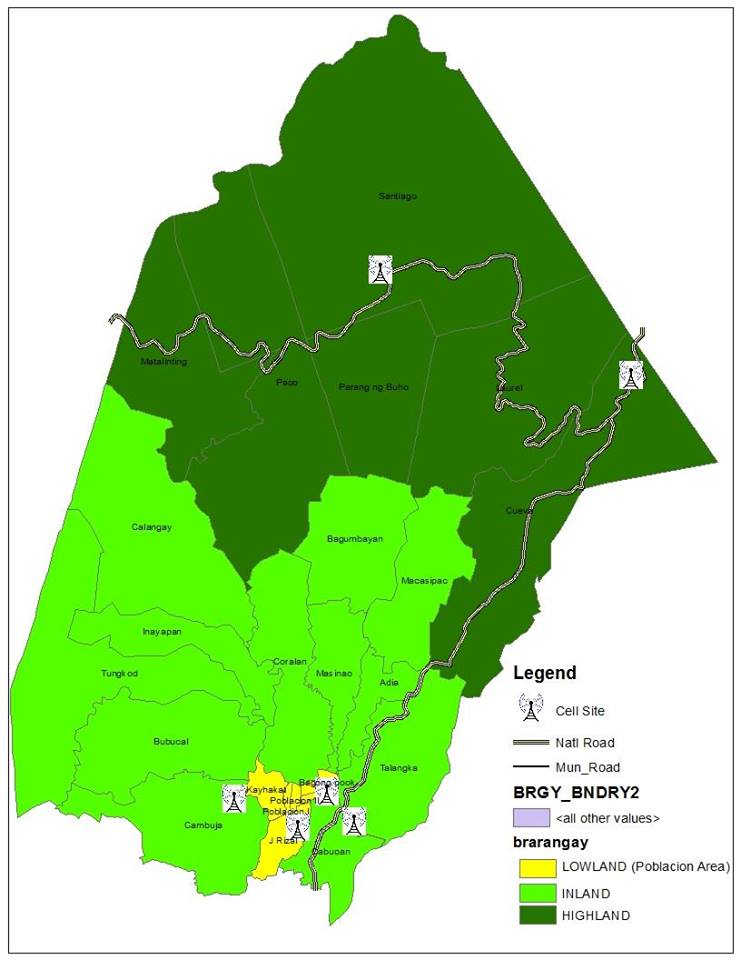 Political Boundary Map of Santa Maria, Laguna and its Barangays